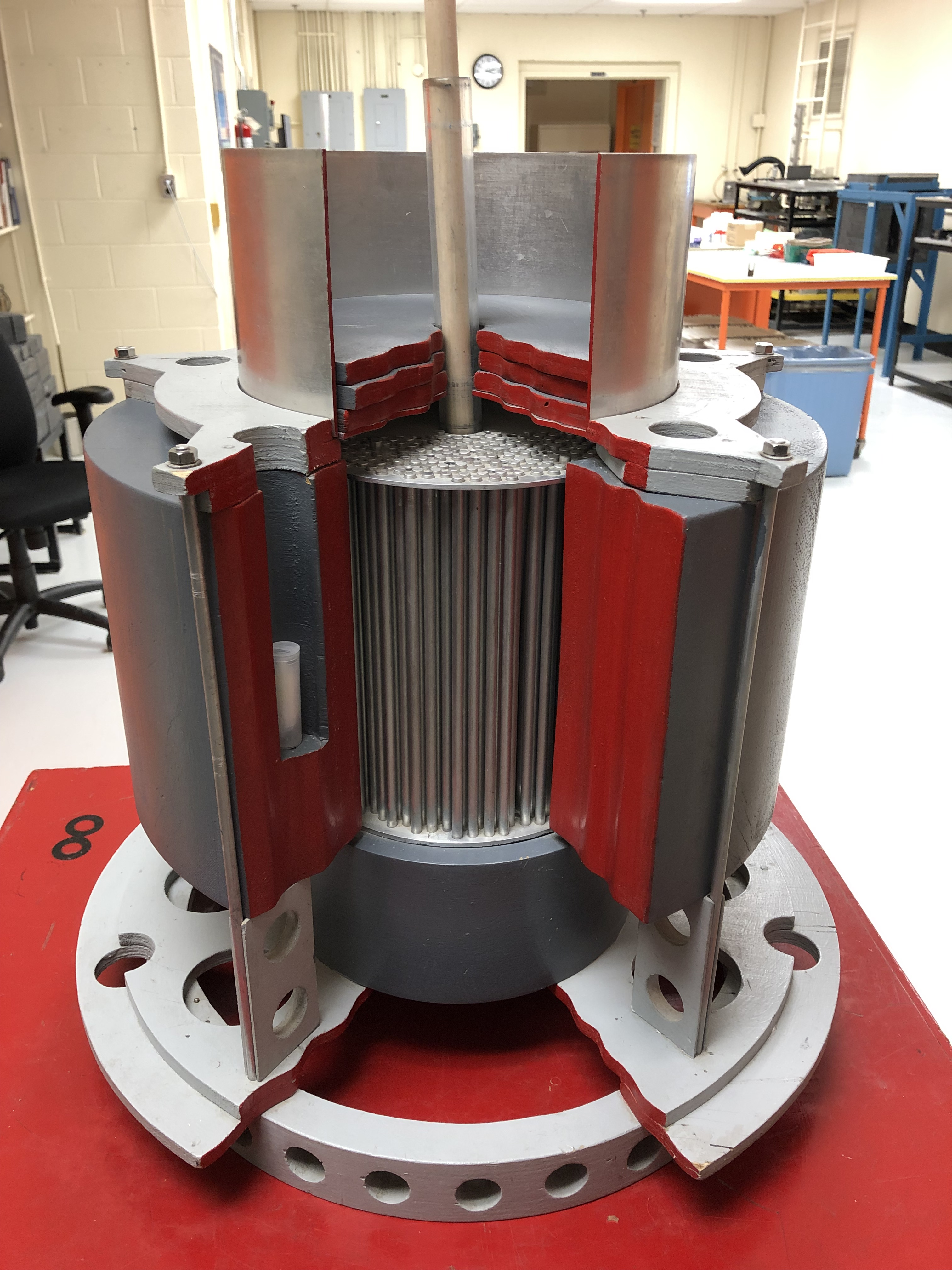 École Polytechnique de Montréal Slowpoke Reactor Core 1:1 Model